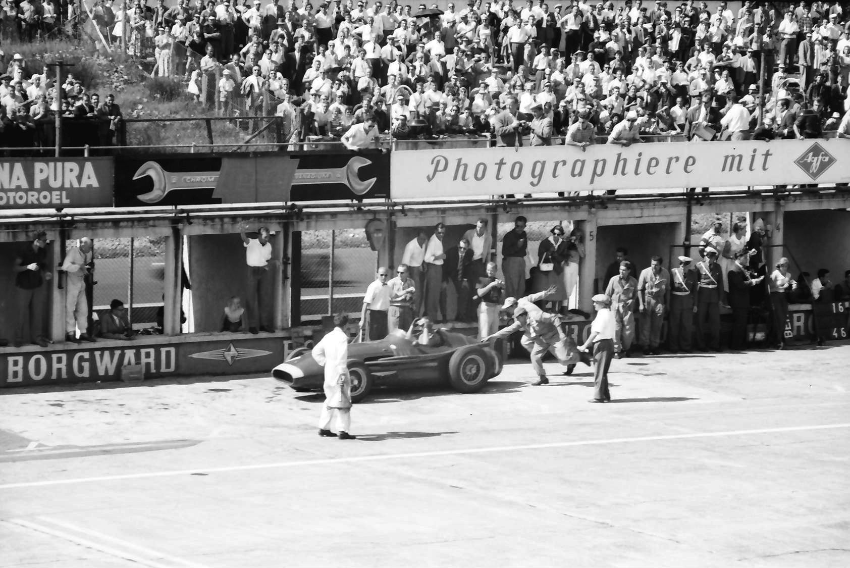 The crowd looks on as the reigning World Driver's Champion, Juan Manuel Fangio, reaches up with both hands to put on his goggles as he powers his Maserati 250F car away from the pits, with a helping shove from two of his mechanics. Despite being almost a minute down on the two Ferraris of Mike Hawthorn and Peter Collins at this stage, he would go on to pass both of them and win the 1957 German Grand Prix.